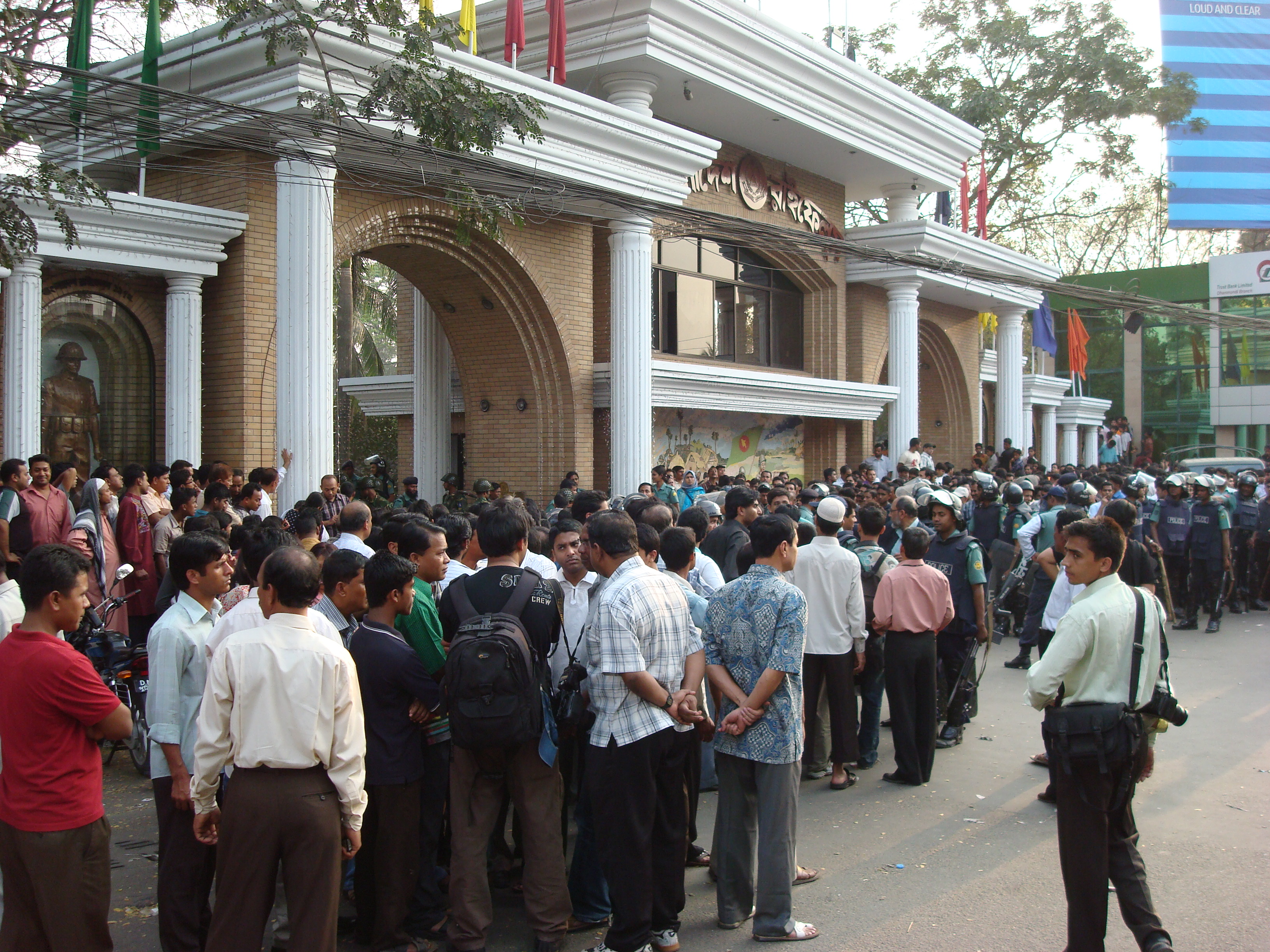 Media workers, armed forces and common people waiting anxiously nearly the 4th Bangladesh Rifles main entrance gate on the afternoon of 27 February 2009.